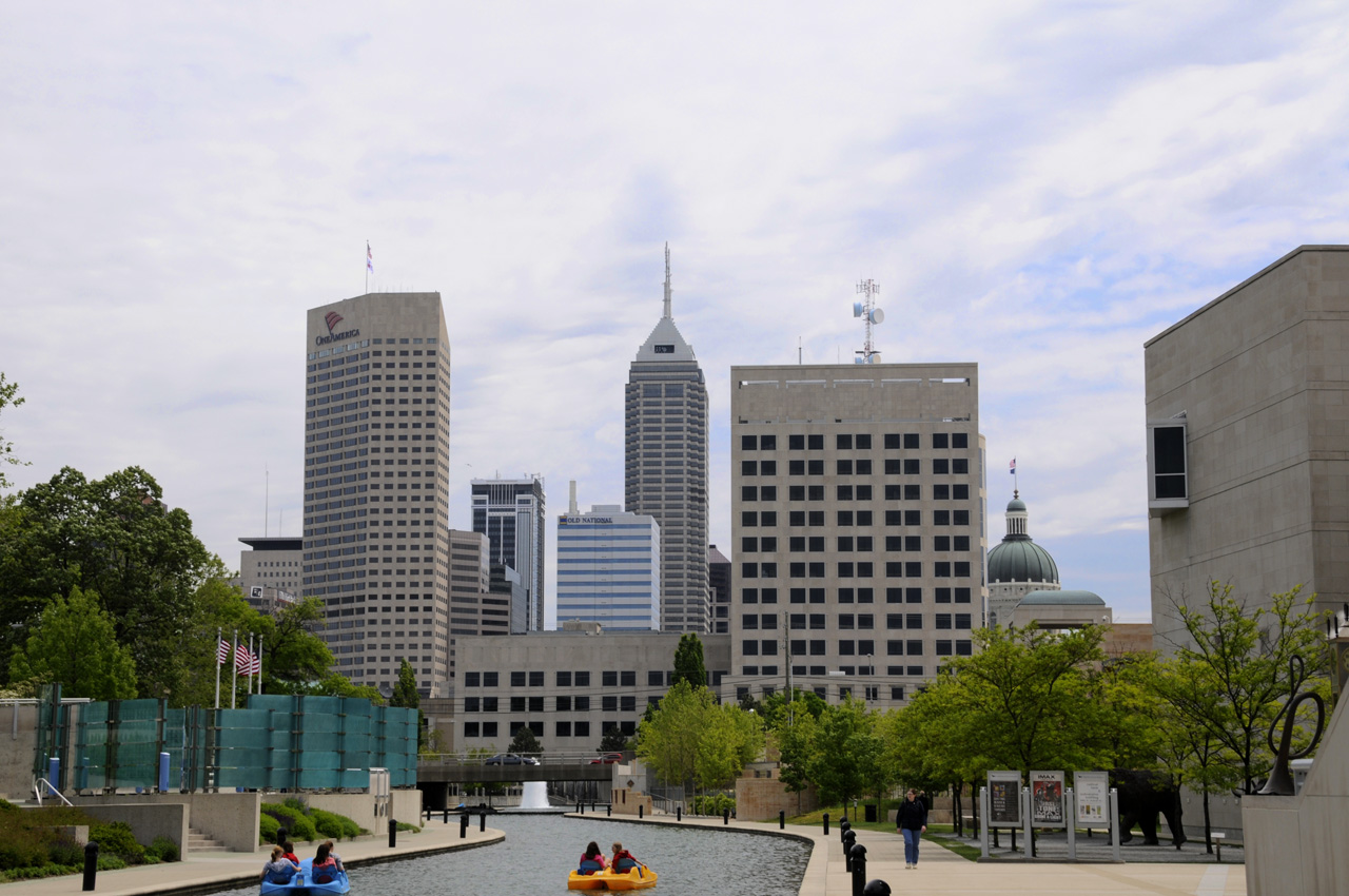 Indianapolis Canal Walk — Downtown Indy view from the canal. I need to make a night shot from here. PS'd a bit for Saturation